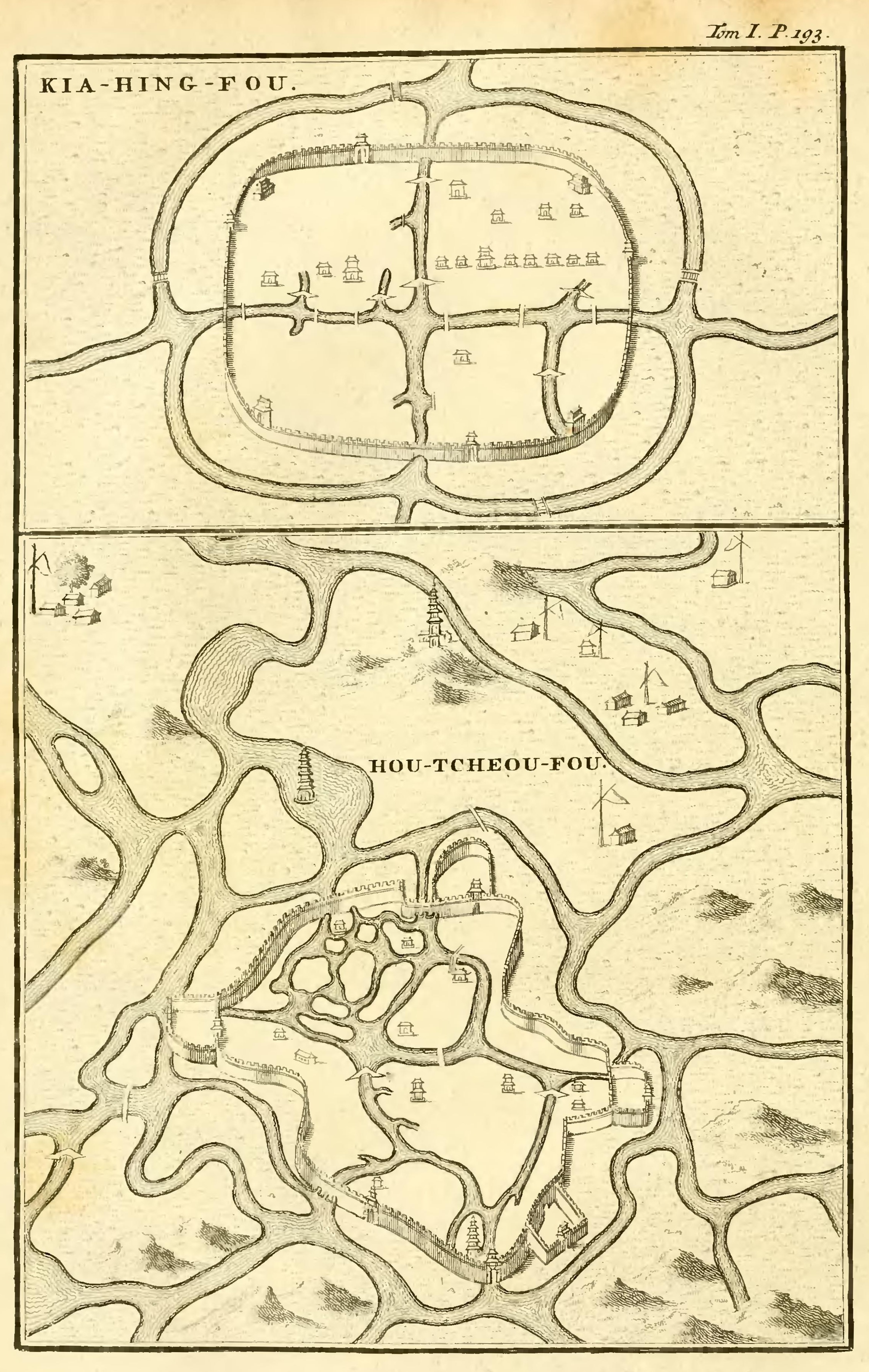 An engraving from La Haye's edition of Du Halde's Description of China, Vol. I, p. 193. Maps of Jiaxingfu (嘉兴府) and Huzhoufu (湖州府) in northern Zhejiang, China.